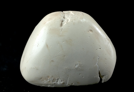 Sepiolite (Size: 5.7 x 4.4 x 2.7 cm) Locality: Killik, Mihaliççik, Eskişehir Province, Central Anatolia Region, Turkey An old specimen of Meerschaum ("sea foam"), in essence sepiolite, from Turkey used for carving smoking pipes and other gee-gaws. It forms as nodules in red clay, then cleaned and dried and carved. Sepiolite is an uncommon hydrated Mg-silicate. Turkey banned export of the nodules in the 1970s to encourage the growth of home-grown meerschaum pipe carving, but only managed to kill off the European meerschaum pipe carving industry. Turkish specimens of this size are rare today from this ancient locality. Ex. Dennis Mullane Collection and accompanied by a The Bradleys label dating to the 1950s or 1960s. Light for its size at 29 grams.